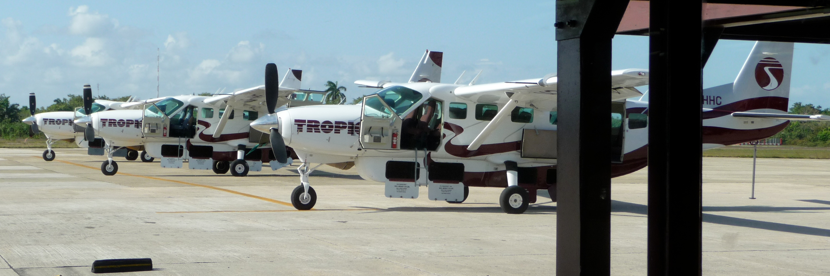 Three Cessna Caravans operated by Tropic Air parked at Philip S. W. Goldson Airport in Belize.